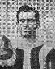 Fred Nidd at Brentford FC 1902/03.